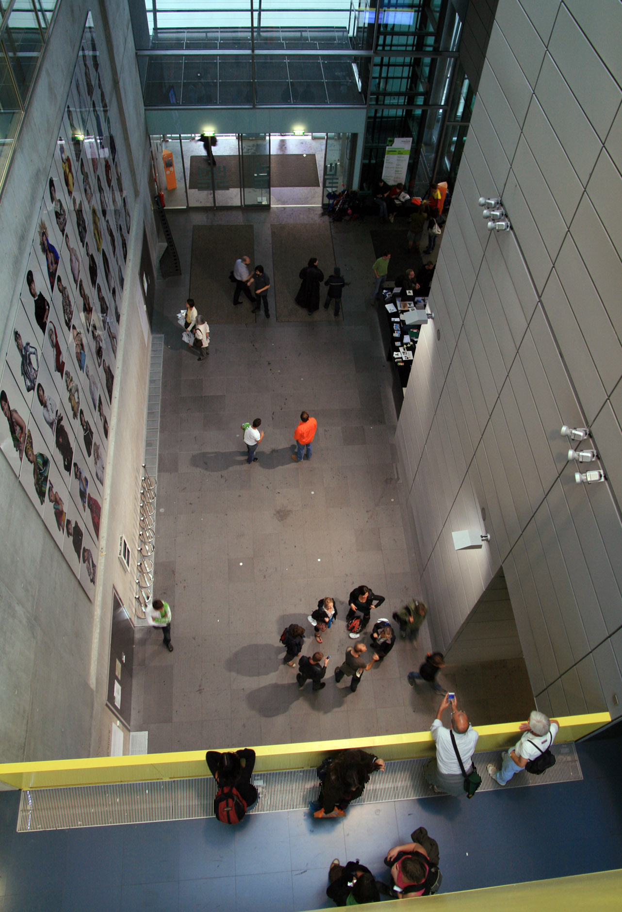 The Ars Electronica Center in Linz during the Ars Electronica Festival 2009.